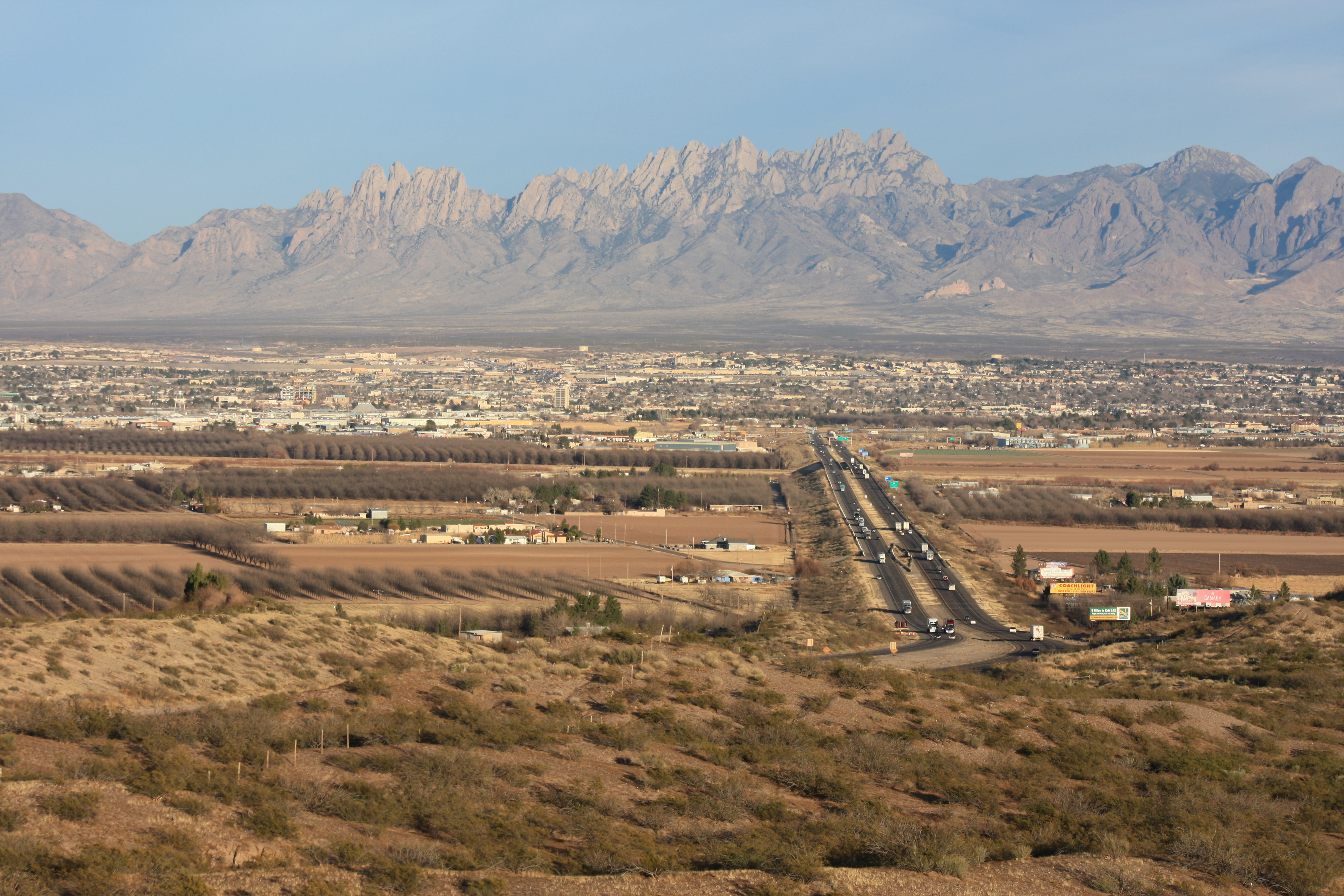 Organ Mountains and Las Cruces, NM, The Organ Mountains, taken from the rest stop on the east side of the I-10/Picacho Ave. interchange (exit 135). Location: Las Cruces.